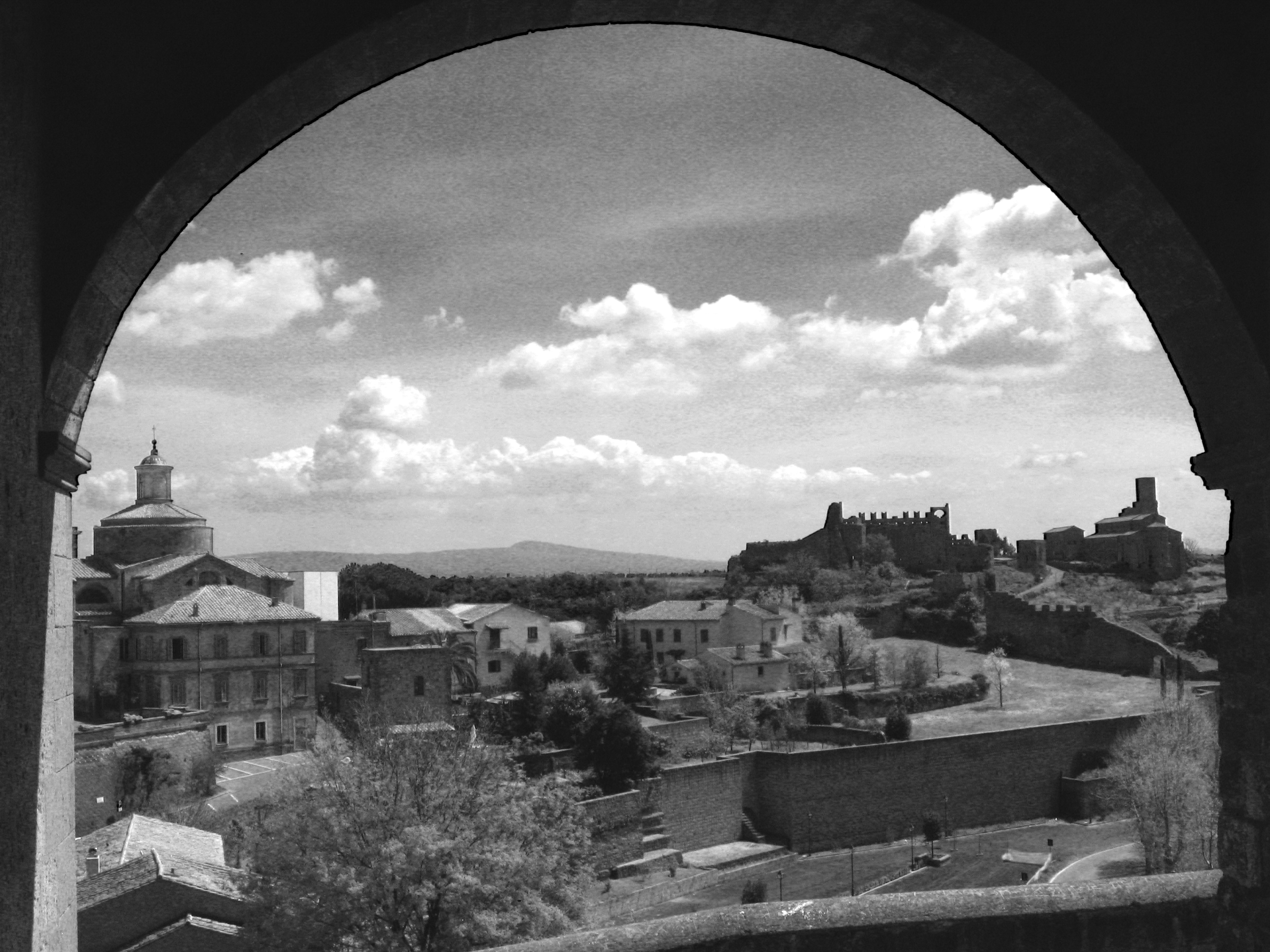 Other images by this contributor - User:Sba2 Use this image as needed, but for uses other than personal, please credit as "Photo by Scott Williams".